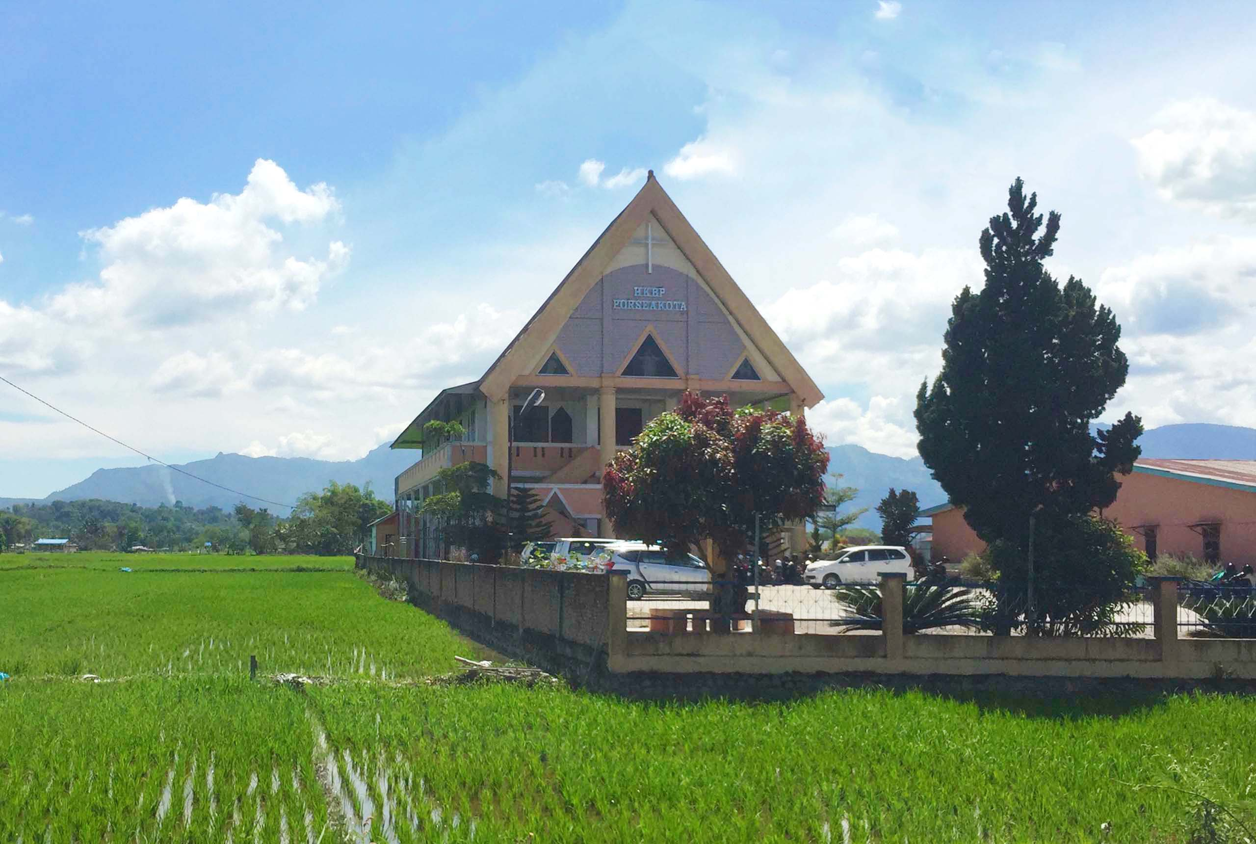 HKBP Porsea Kota, Church in Porsea, Toba Samosir